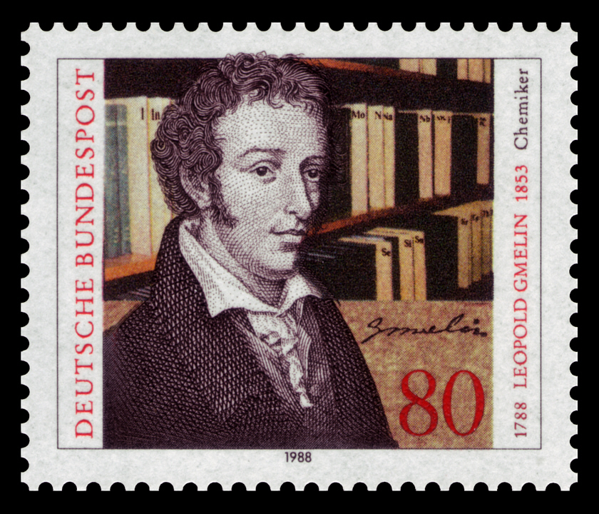 200th day of birth of Leopold Gmelin (1788—1853)